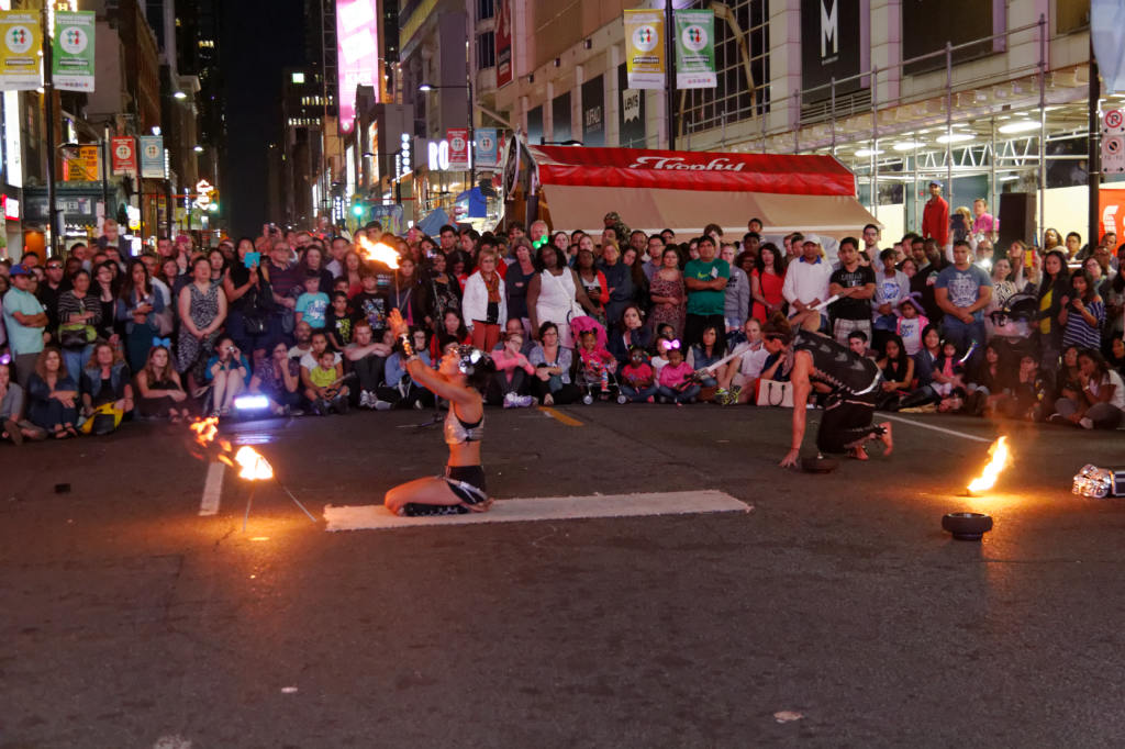 Scotia Bank's Buskerfest 2014